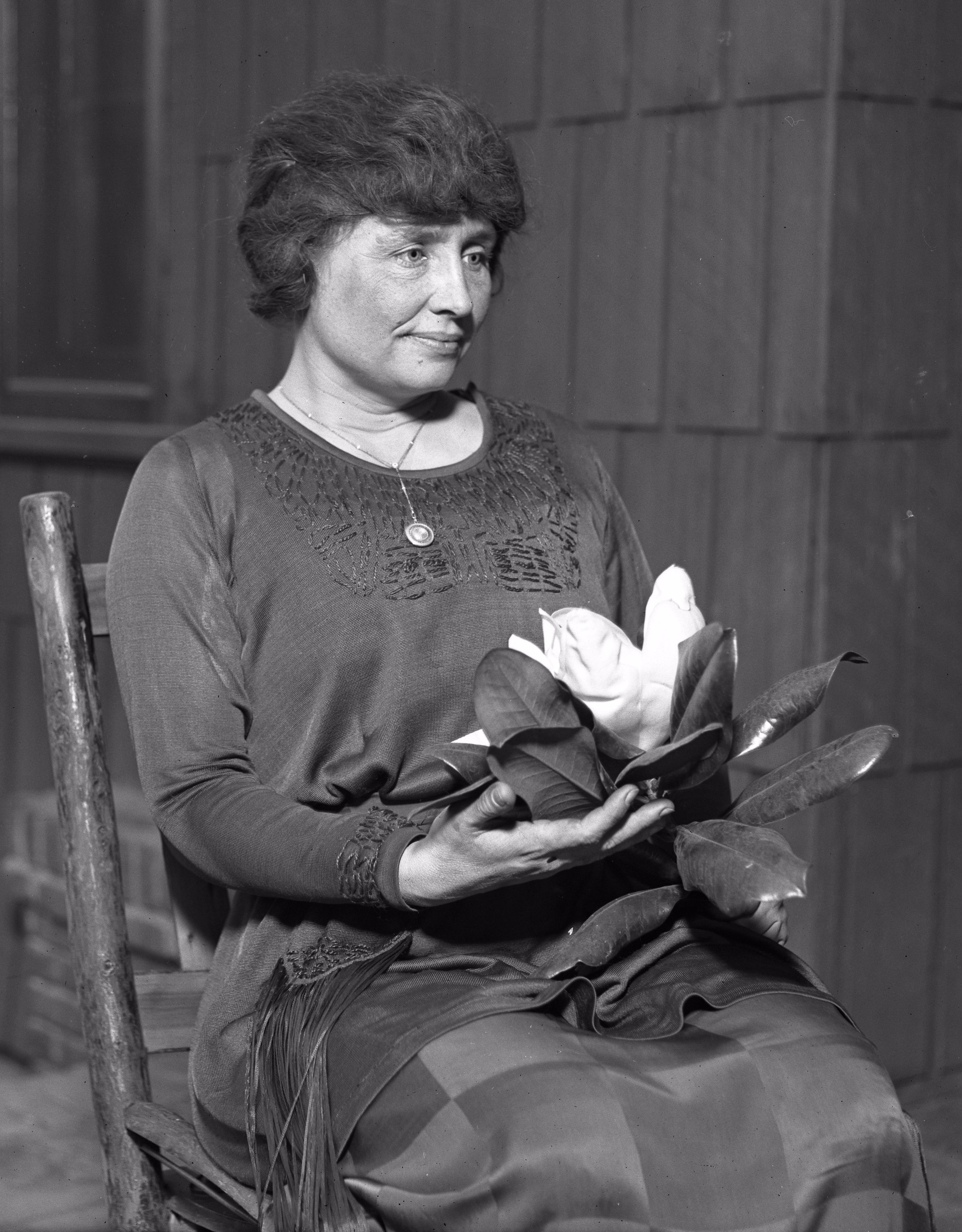 Helen Keller sitting holding a magnolia flower, circa 1920